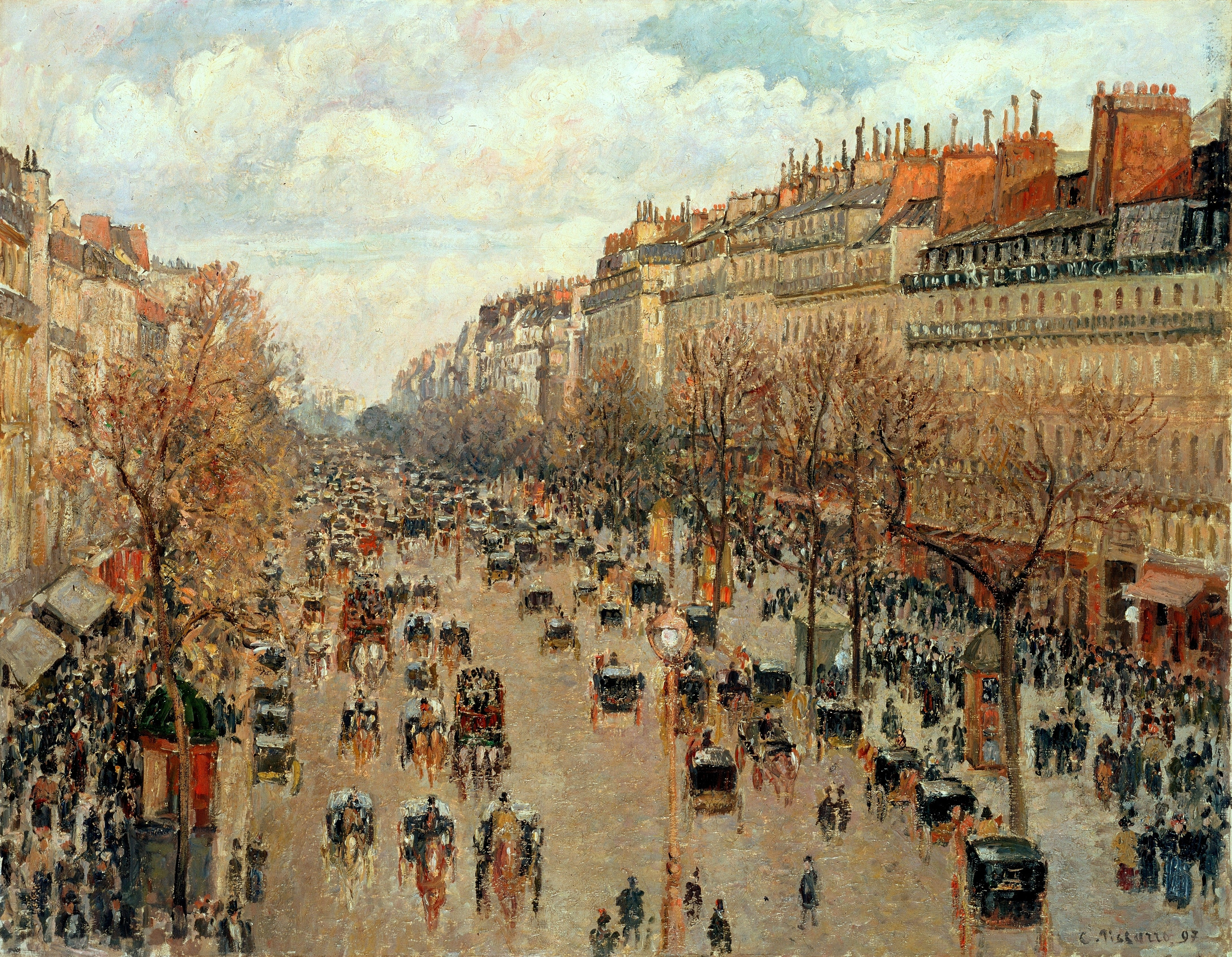 Depicted place: boulevard Montmartre